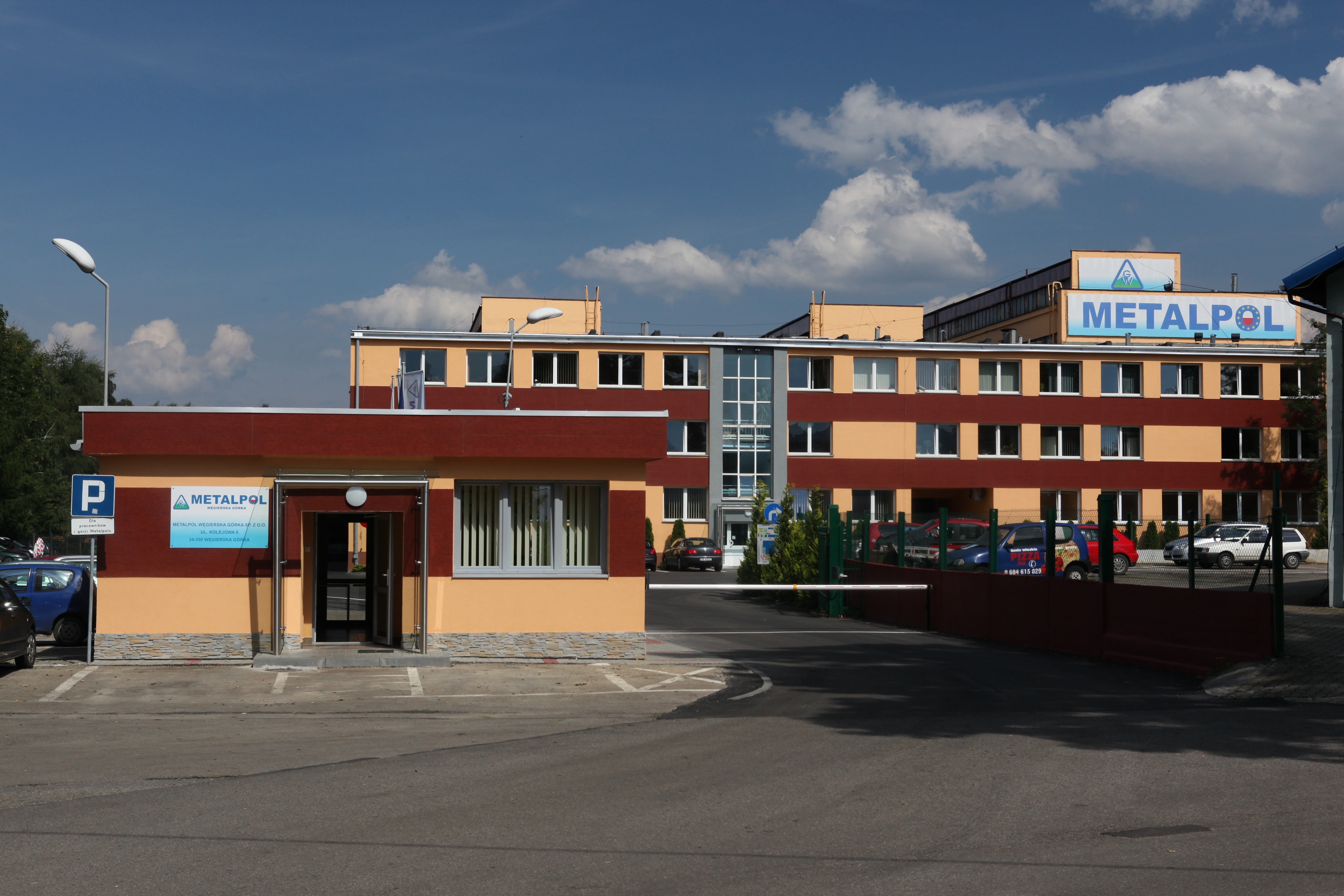 Metalpol